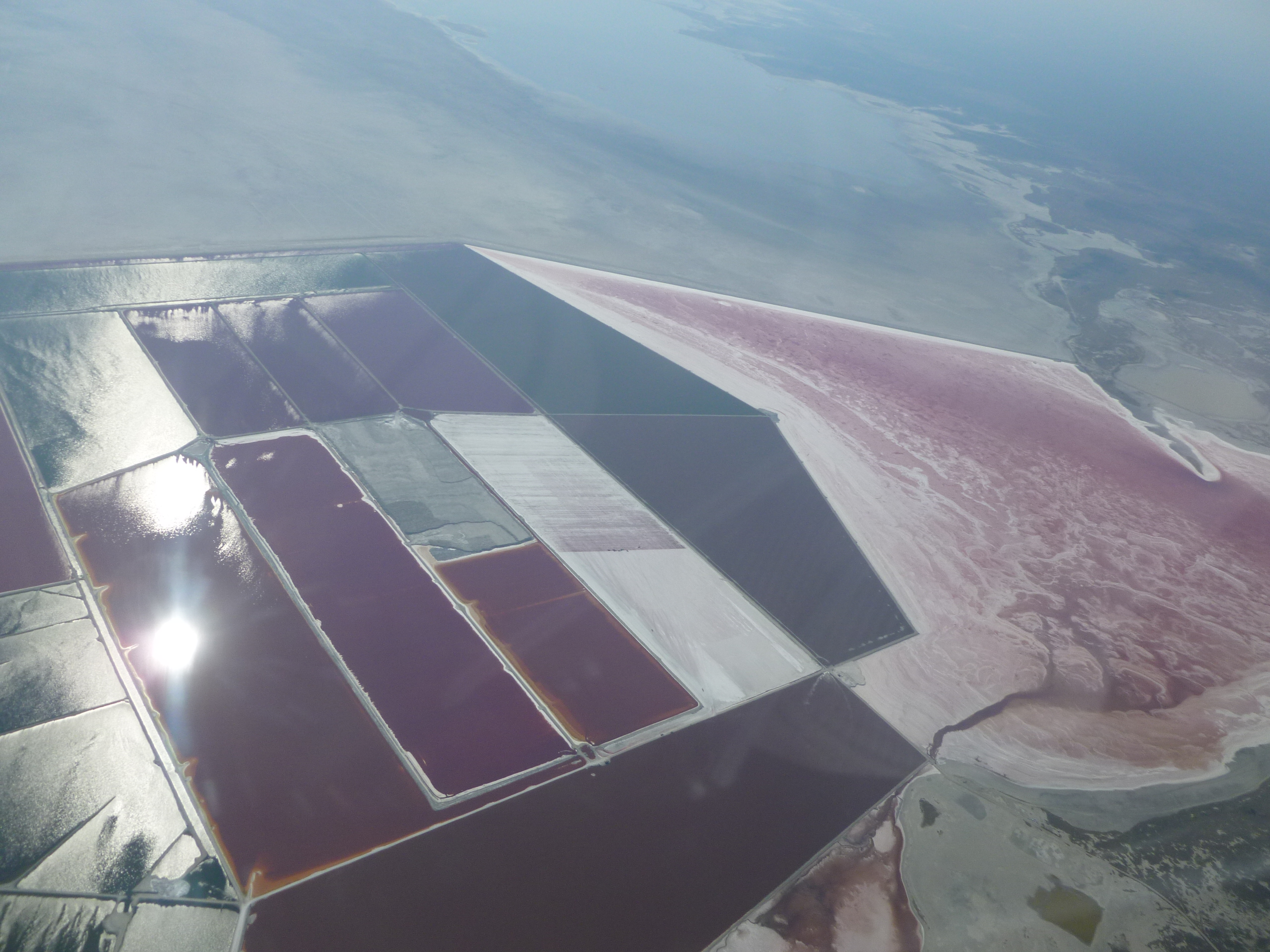 Makgadigadi pans, Sodium Carbonate pans, Na2CO3. Algae causes the red. Camera at 10 000 feet altitude and ground is about 3 280 feet (1000 metres) altitude.